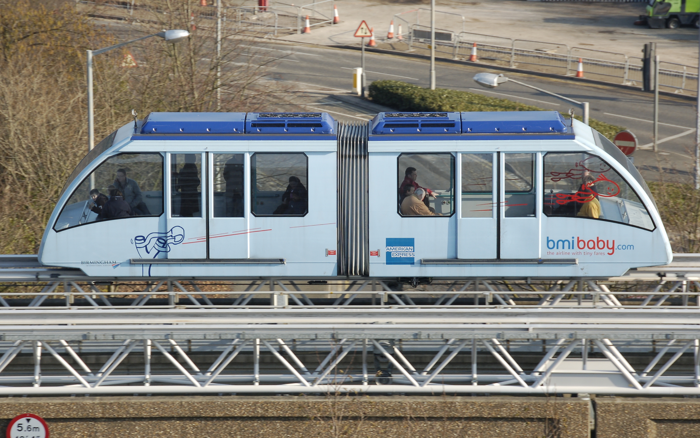 The unmanned Rail-Air Link from Birmingham International railway station to the airport passenger terminals at Birmingham International Airport. Opened in 2003, two cars run every 2 minutes over the 585 metre journey, pulled by cables and pulleys.